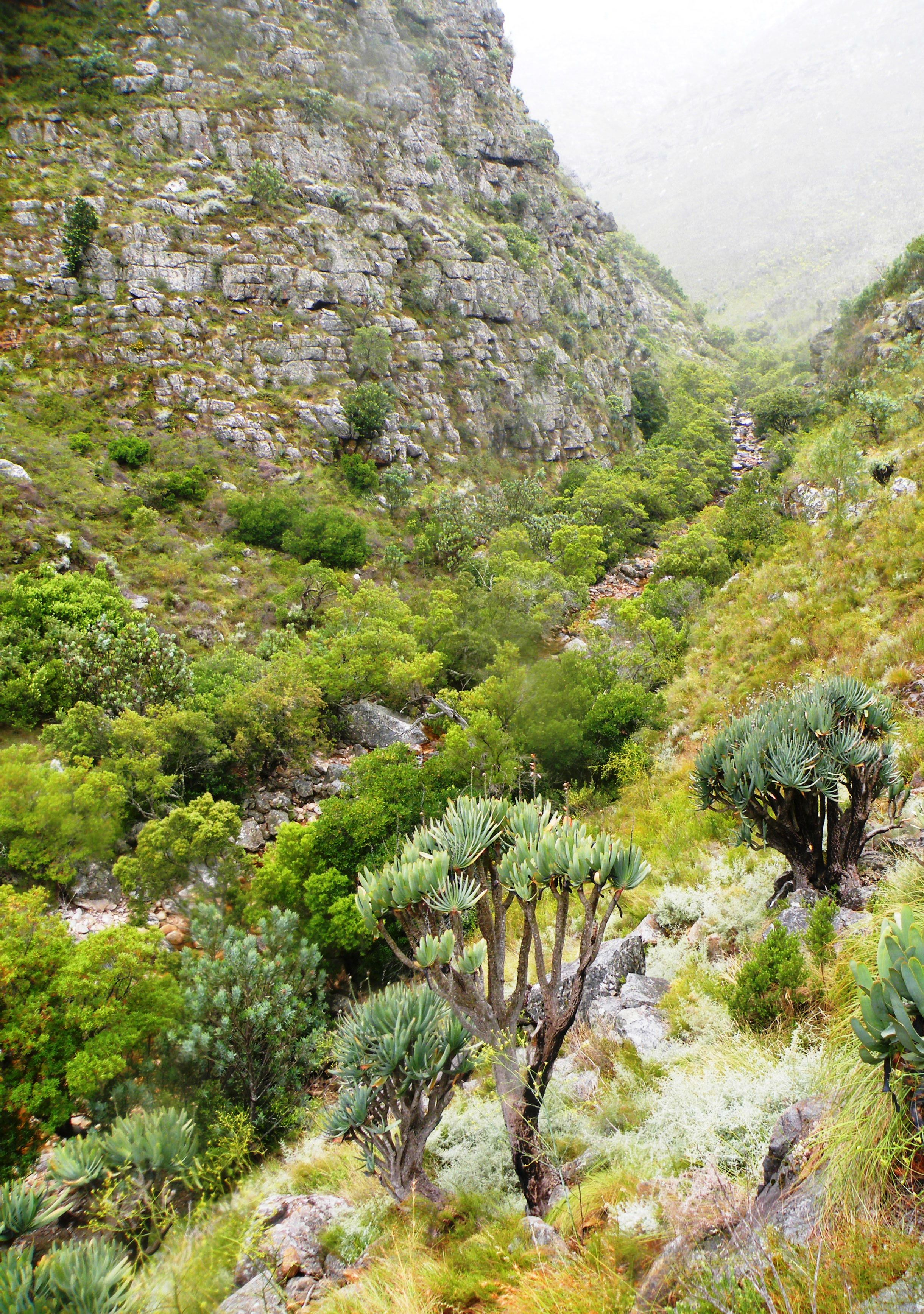 Large fan aloes growing in valley alongside hiking trail. Western Cape mountains. South Africa.